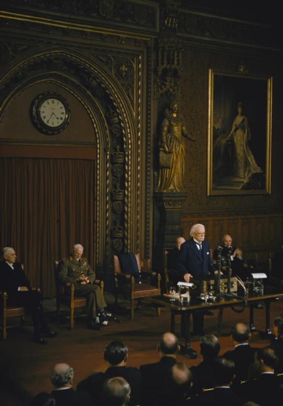 Visit of Field Marshal Smuts, Prime Minister of South Africa To the House of Commons, Westminster, London, 21 October 1942 Mr David Lloyd George making his introductory speech in the House of Commons.